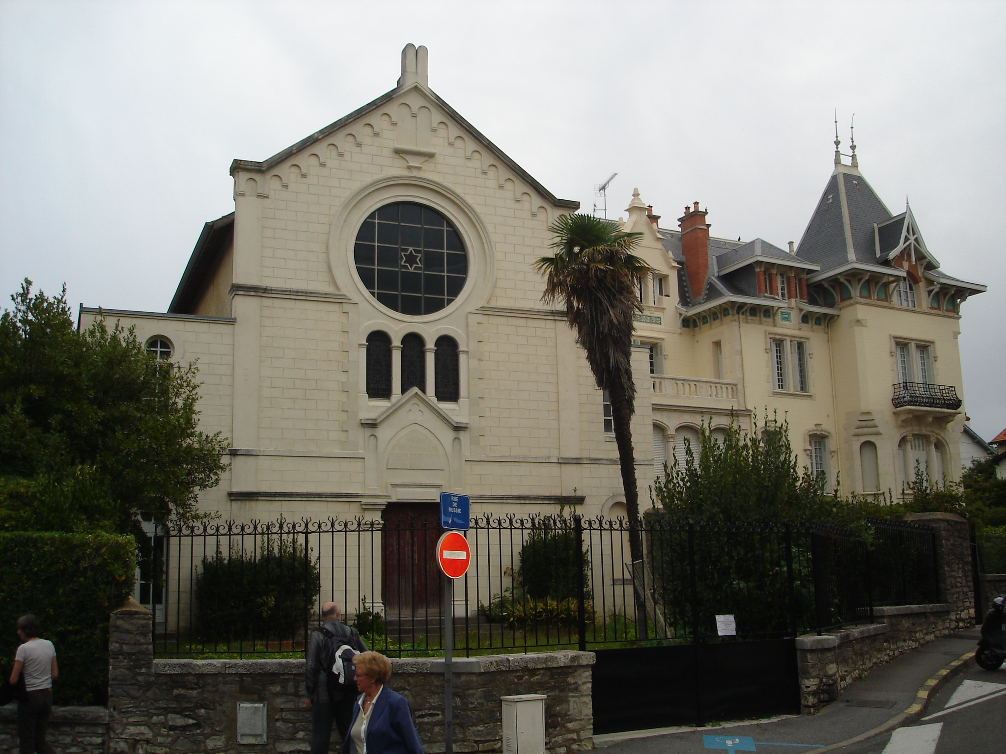 Synagogue of Biarritz (France); Built in 1904, closed in 1999. Will reopen in Summer 2011.